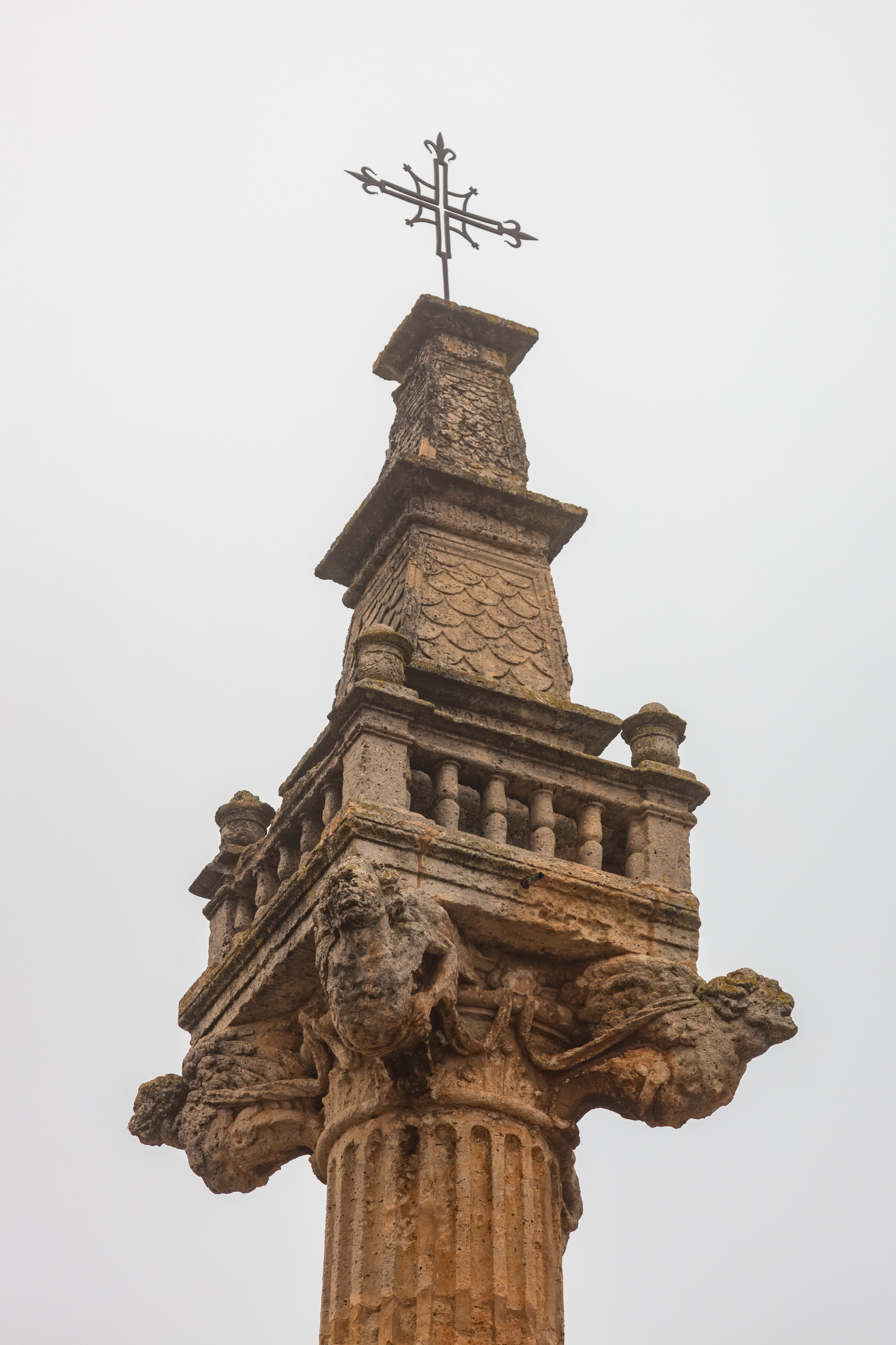 Pillory, Fuentenovilla, Guadalajara, Spain